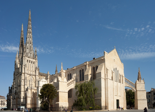 Cathédrale Saint-André; Bordeaux, Aquitaine, Gironde, France; ; ref: PM_094226_F_Bordeaux; ; Photographer: Paul M.R. Maeyaert; © Paul M.R. Maeyaert; ; Cultural heritage; Cultural heritage/Cathedral; Europeana; Europe/France/Bordeaux